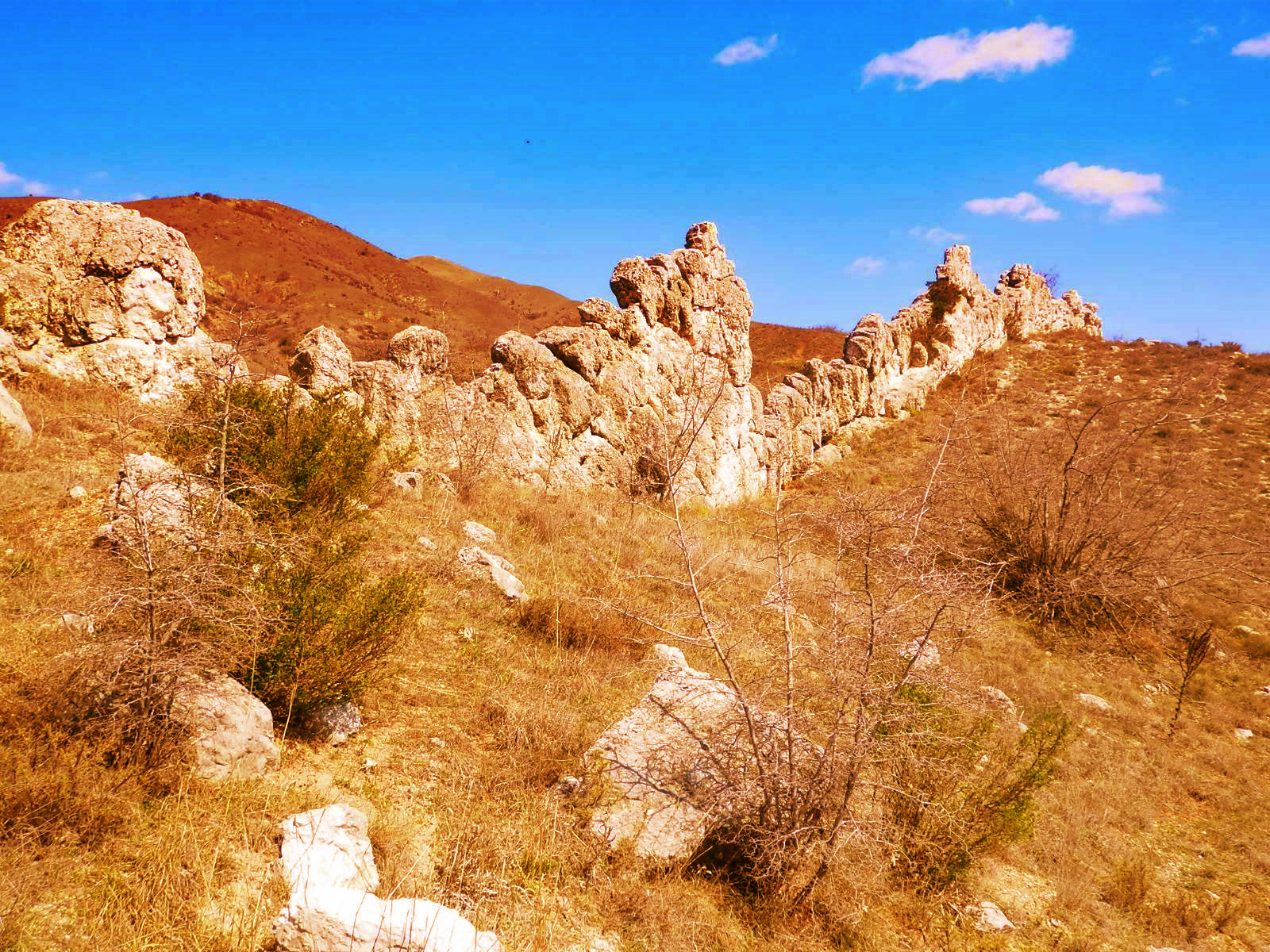 Devils' wall FYROM